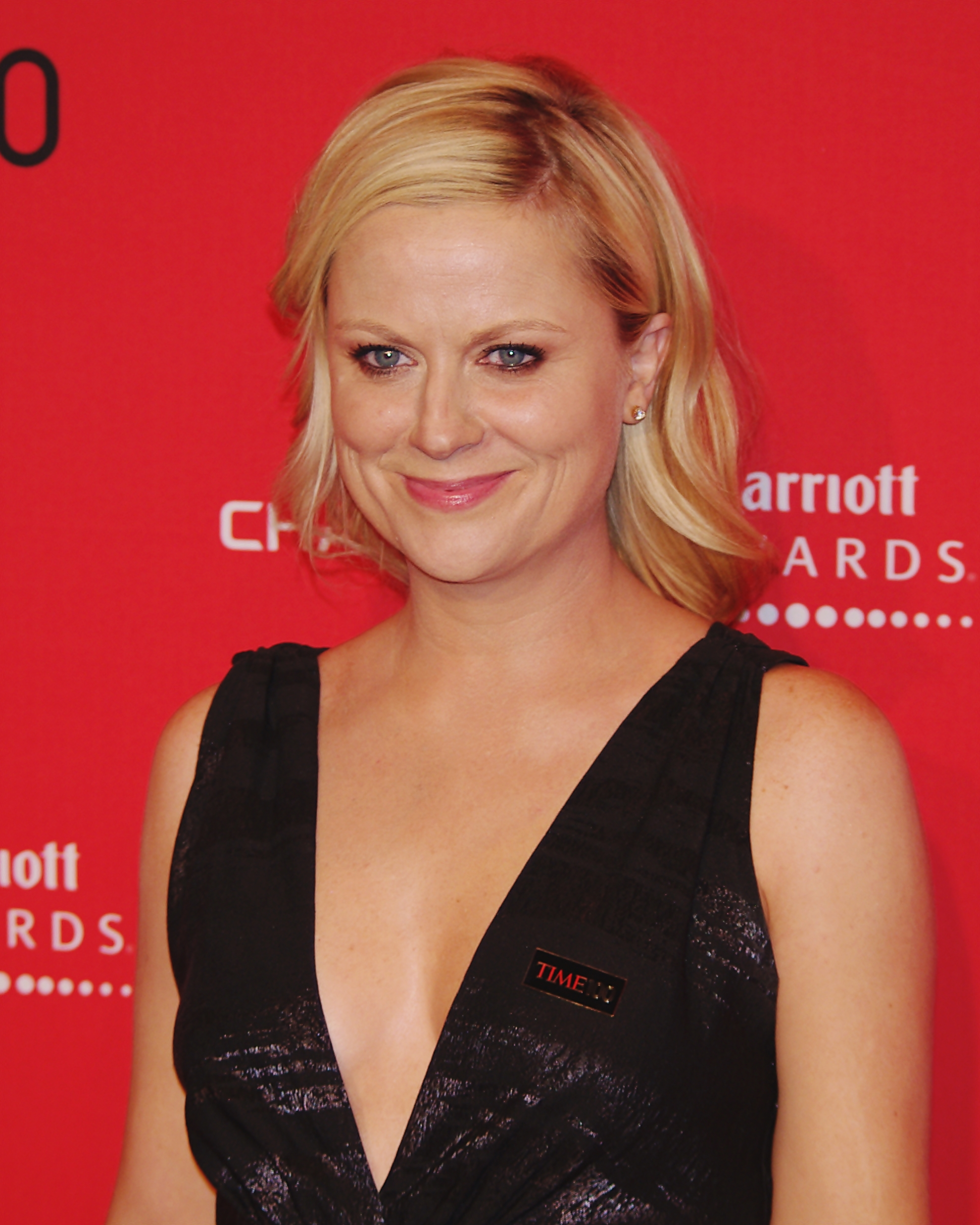 Amy Poehler at the 2012 Time 100 gala.